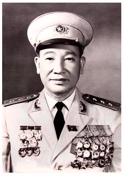 Thượng tướng Bùi Phùng